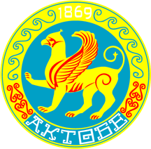 Map of the Provinces of Kazakhstan (colourful)